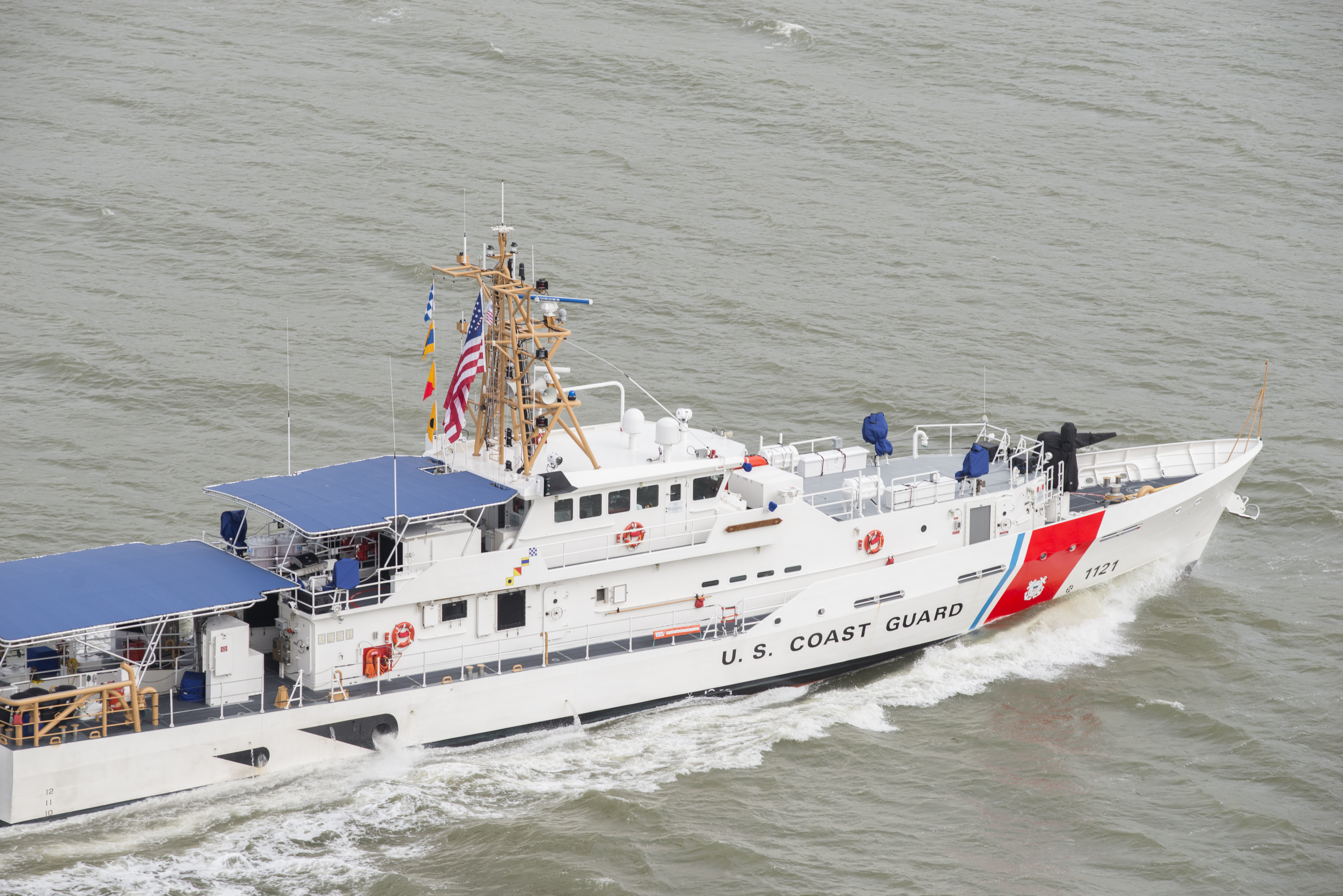 USCGC John F. McCormick in San Francisco, California Original caption: “Coast Guard Cutter John F. McCormick (WPC 1121) crew transits through the San Francisco Bay, Saturday, March 4, 2017, during their voyage to homeport in Ketchikan, Alaska. The cutter was named after McCormick who received the Gold Lifesaving Medal in 1938 for his exceptional skill in maintaining control of the 52-foot motor lifeboat Triumph while responding to a vessel in need near the Columbia River Bar under treacherous conditions, allowing the crew to recover a crewmember that had been washed overseas. Coast Guard photo by Petty Officer 2nd Class Loumania Stewart”